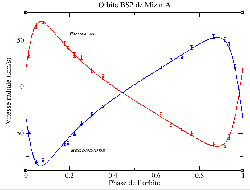 courbe de vitesse radiale de Mizar A - radial velocity curve of Mizar A, with data from fehrenbach&Prévot, 1961